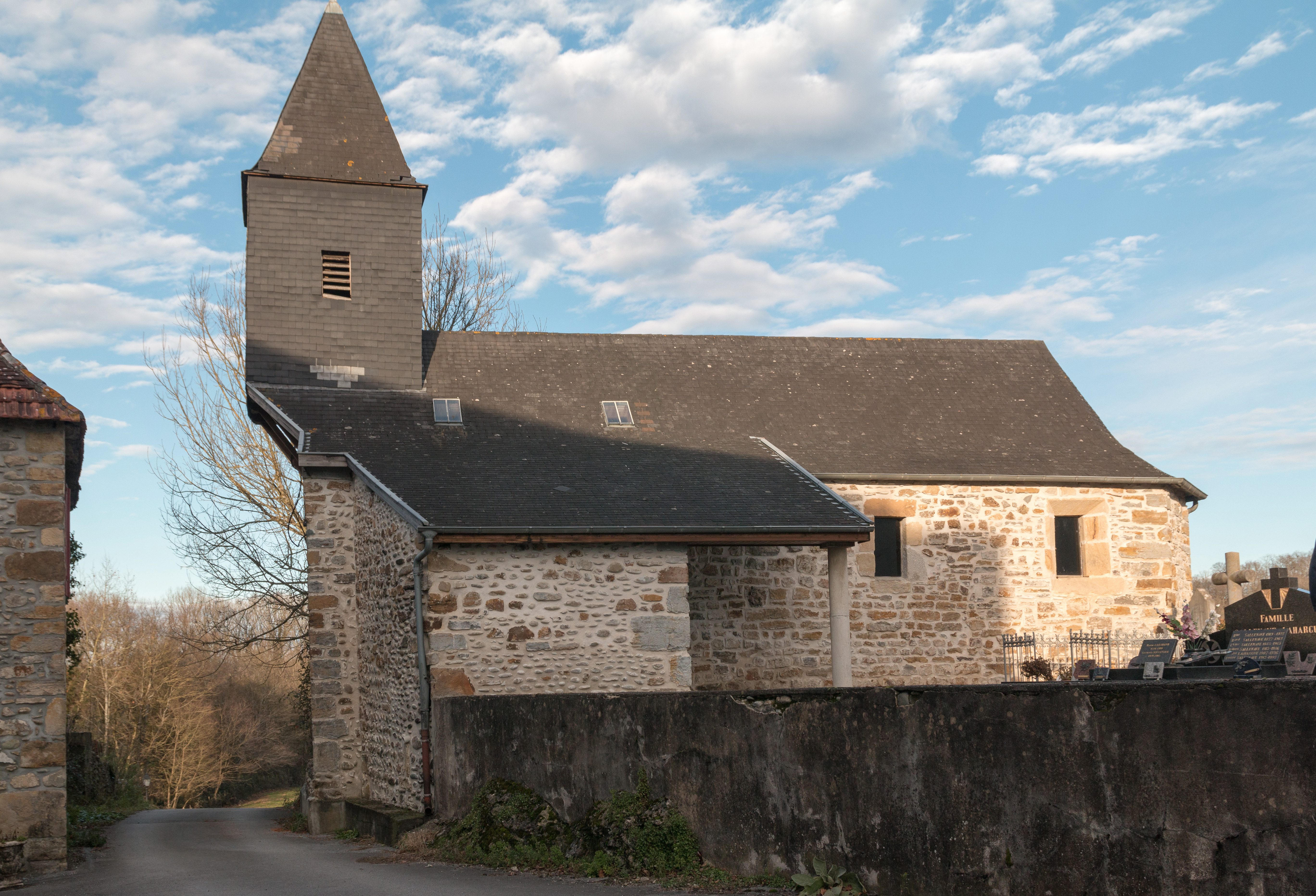 Parish church of St Grat.